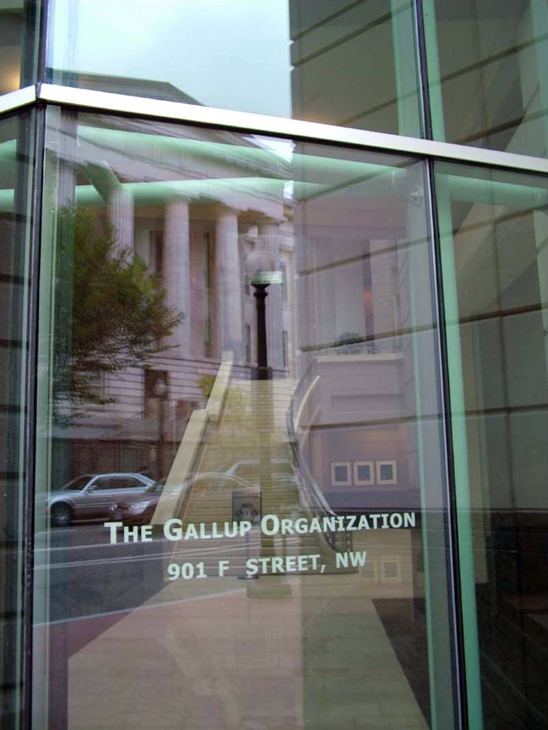 The Gallup Organization office in Washington, D.C. The reflection is of the National Portrait Gallery.